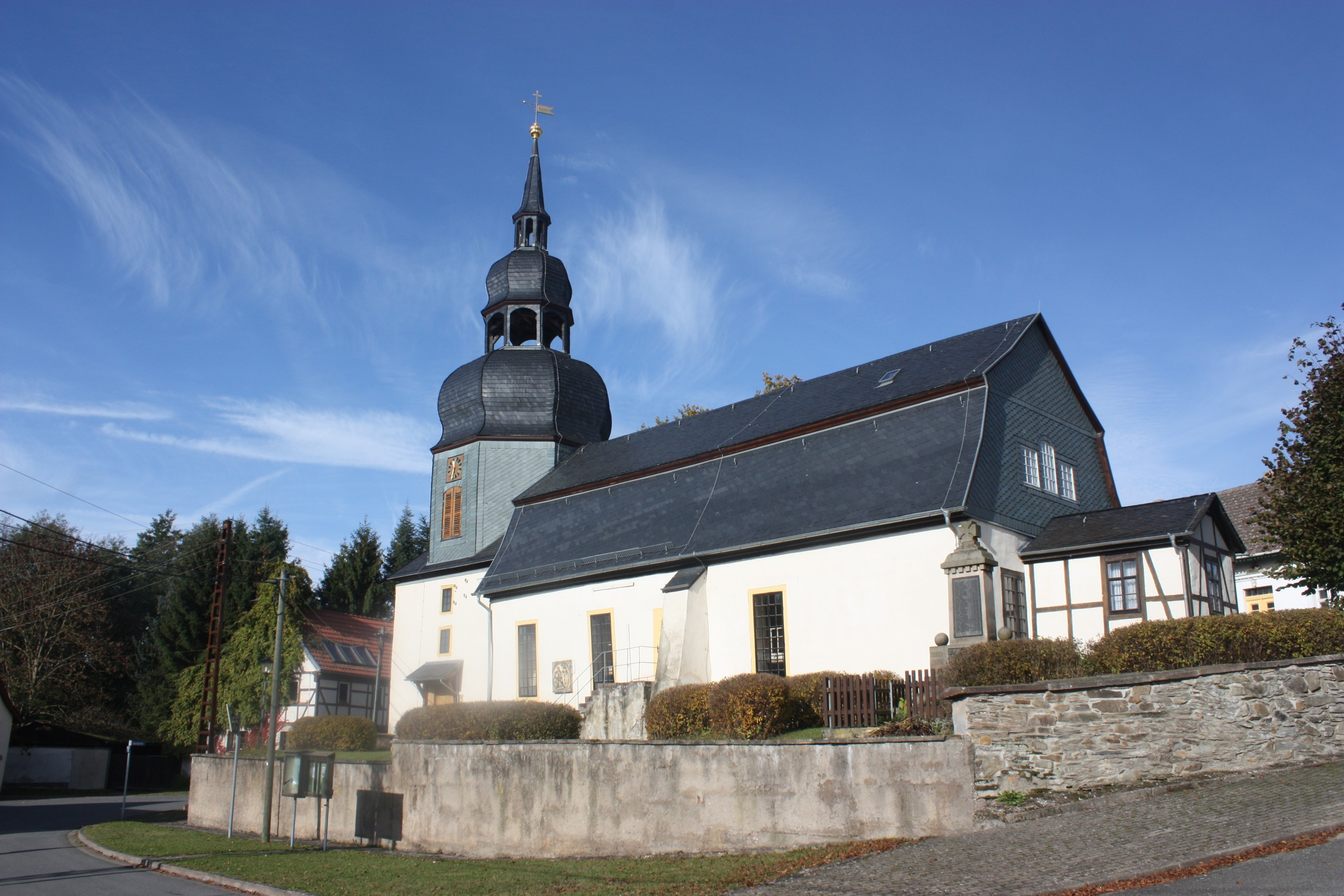 Dietersdorf (Südharz), the Holy Sepulchre church